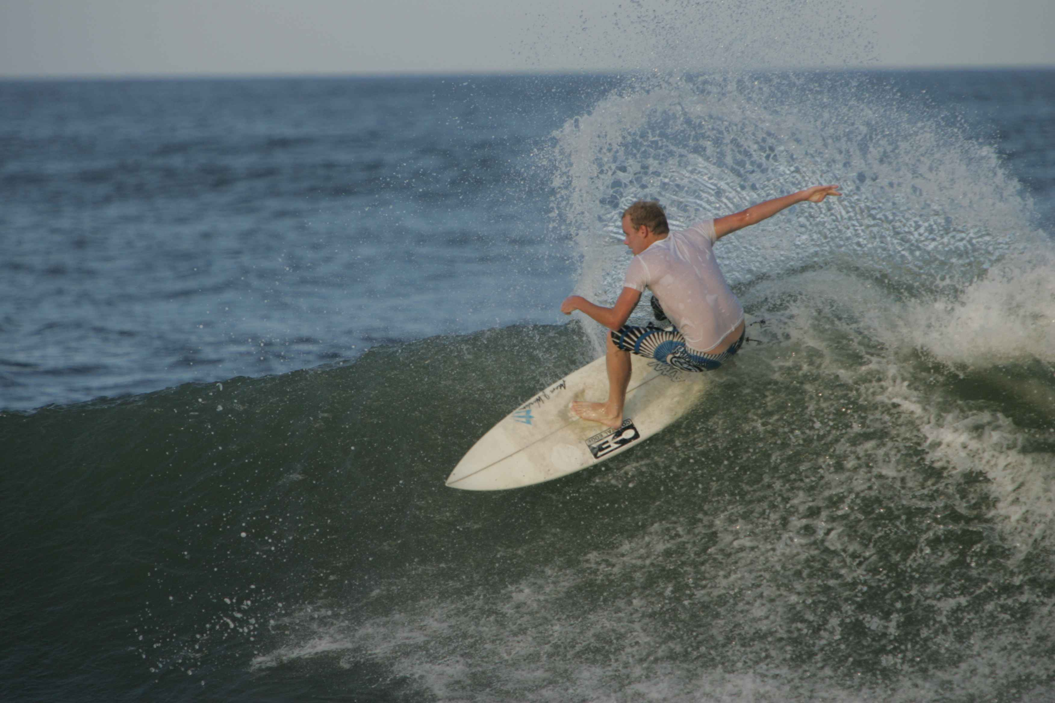 Image title: Surfer maneuvers a front side cutback to generate more speed on a wave Image from Public domain images website